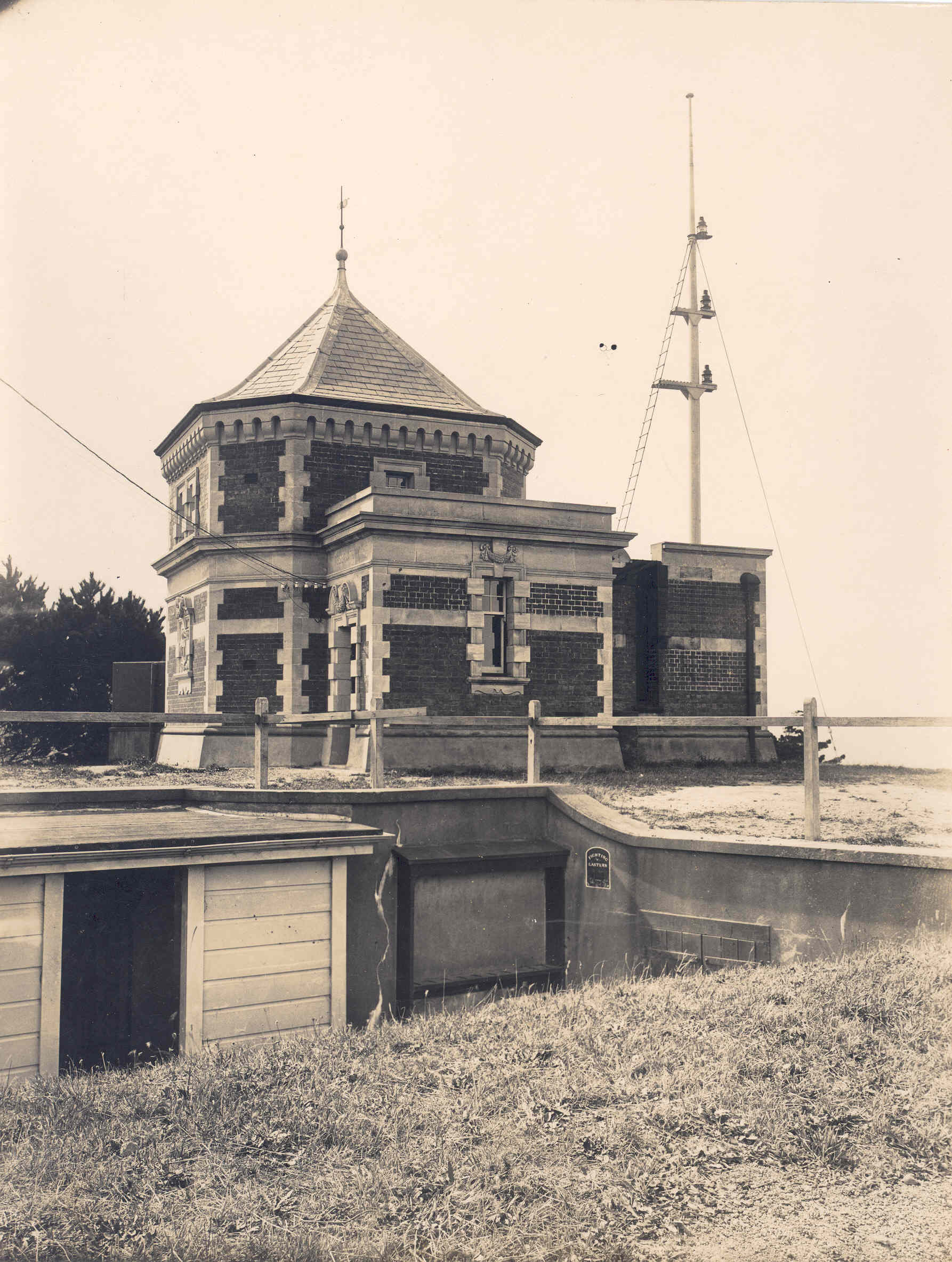 Image of Wellington's Dominion Observatory showing the time light signals